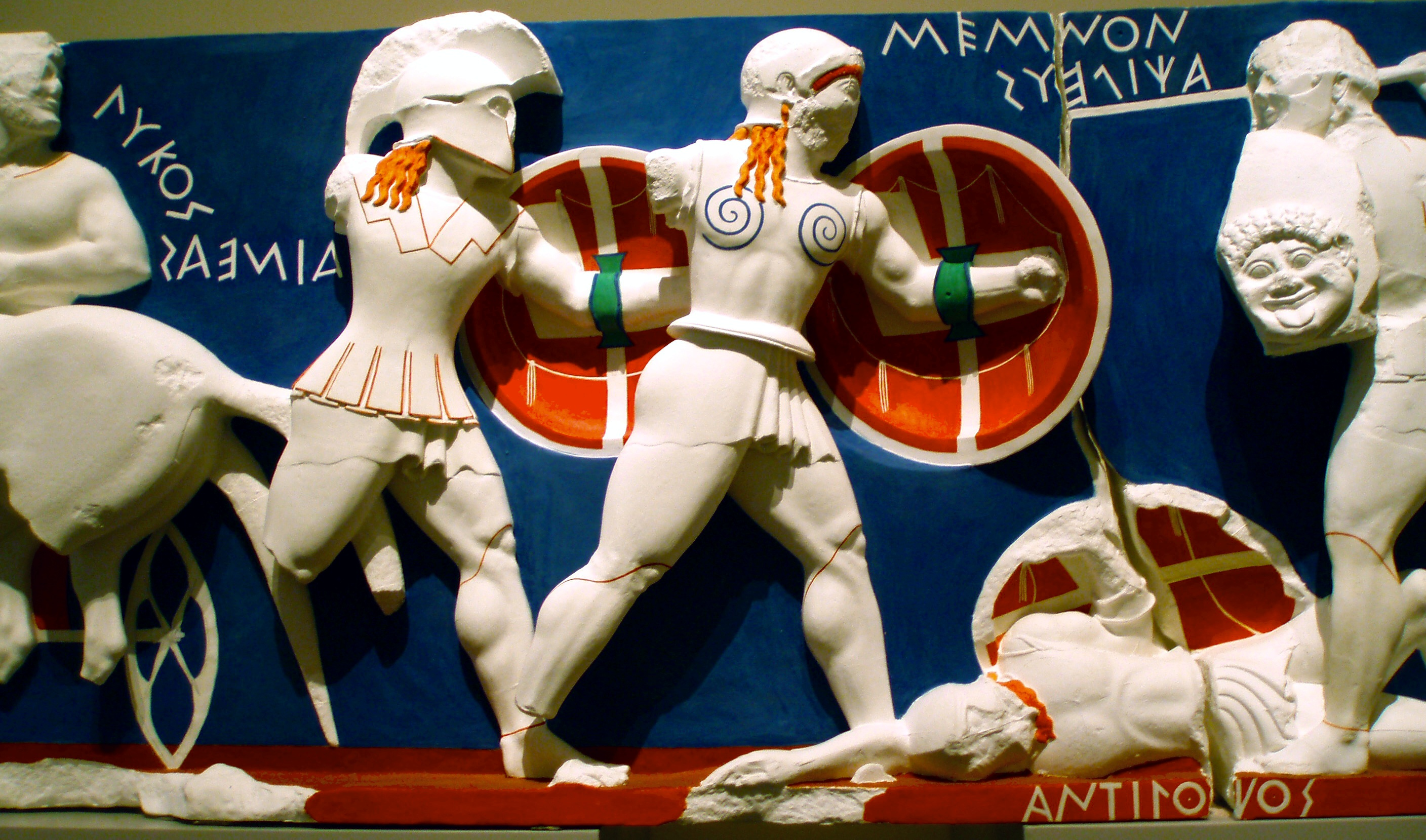 East Frieze detail representing the battle of Troy, Achilles against Memnon. Reproduction of the Treasury of Siphnos - Delphi, Archaeological Museum of Delphi